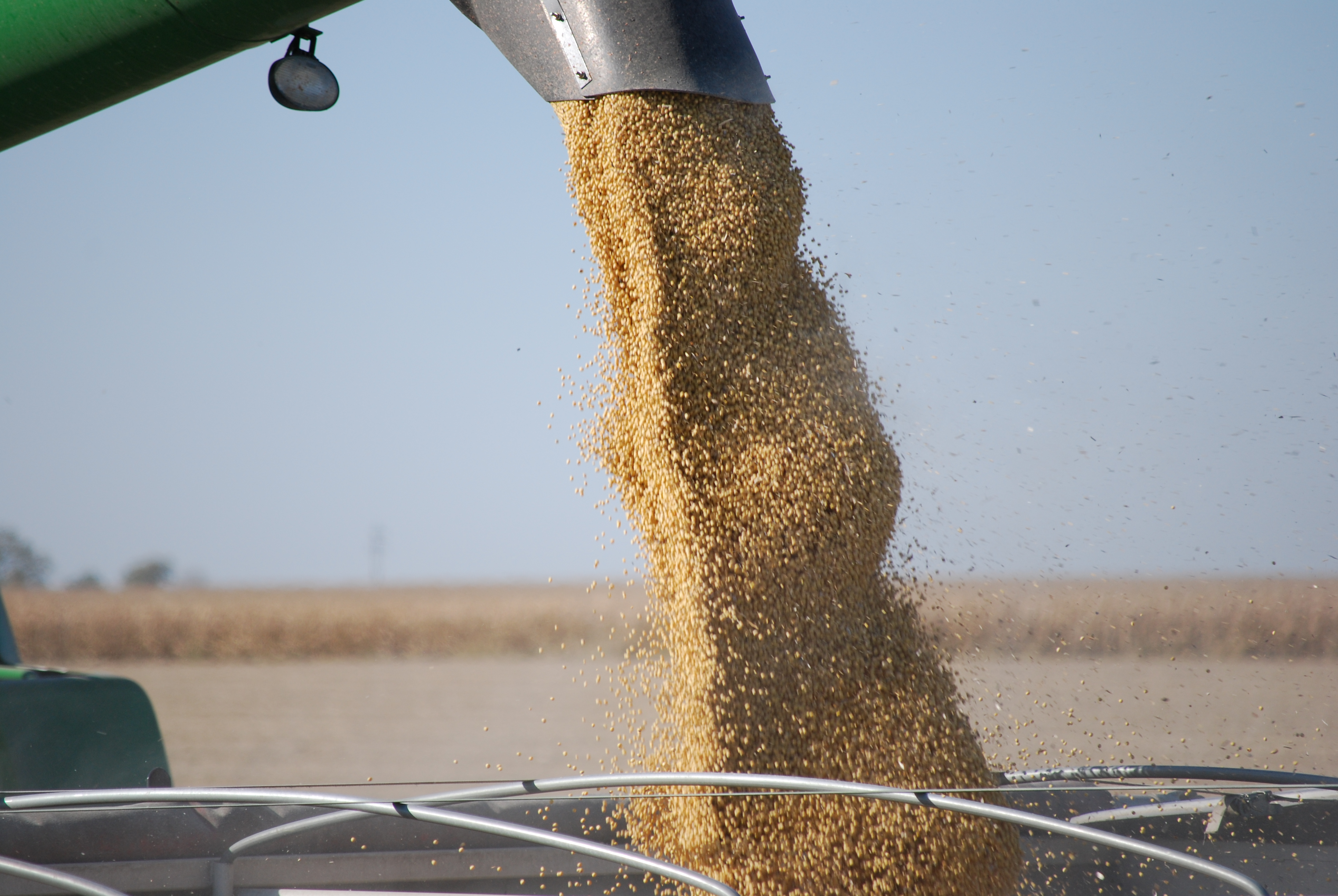 Soybean Harvest If used, credit must be given to the United Soybean Board or the Soybean Checkoff.